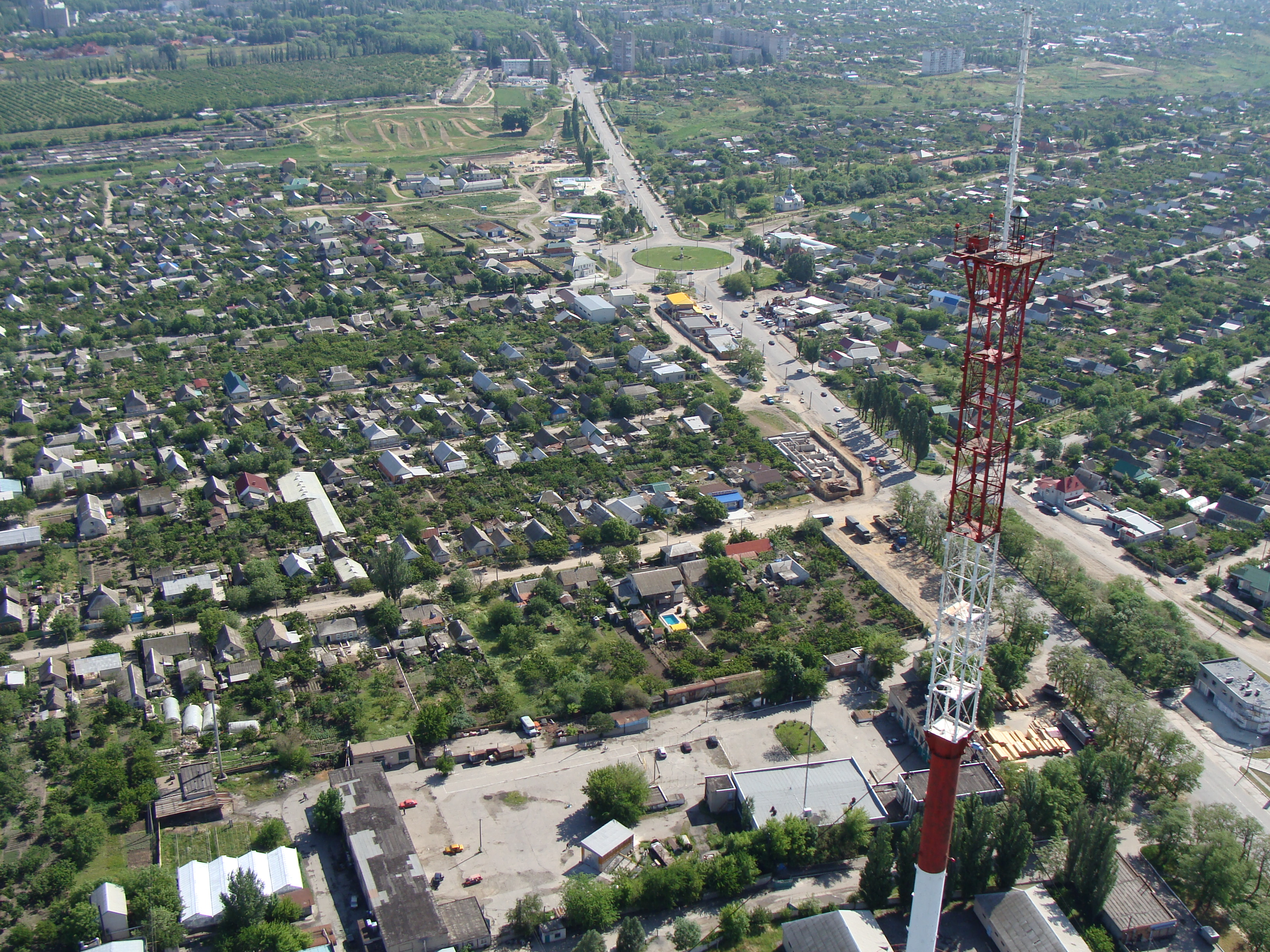 The city of Melitopol in Ukraine as it is seen from from TV tower